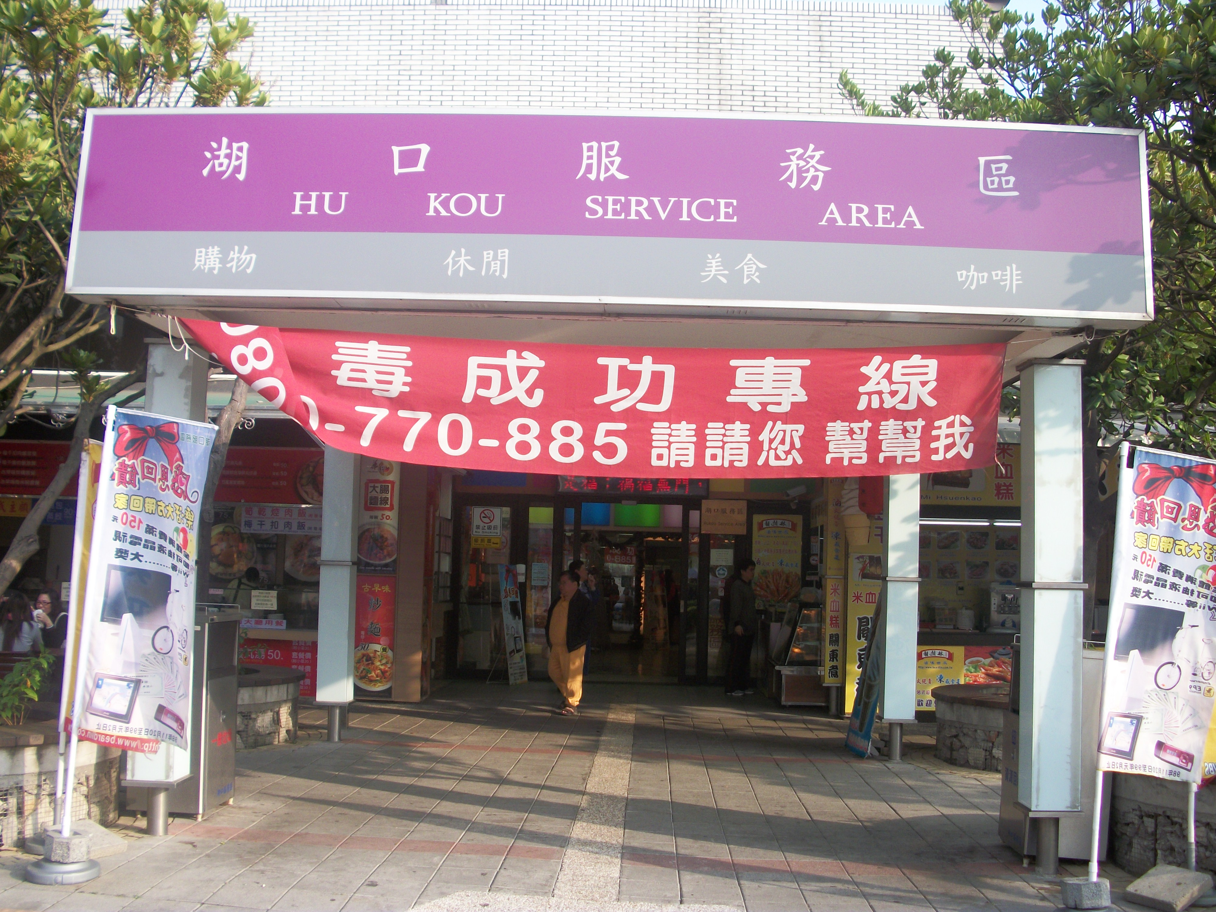 Hukou Service Area of the Zhongshan Highway in Hsinchu County.